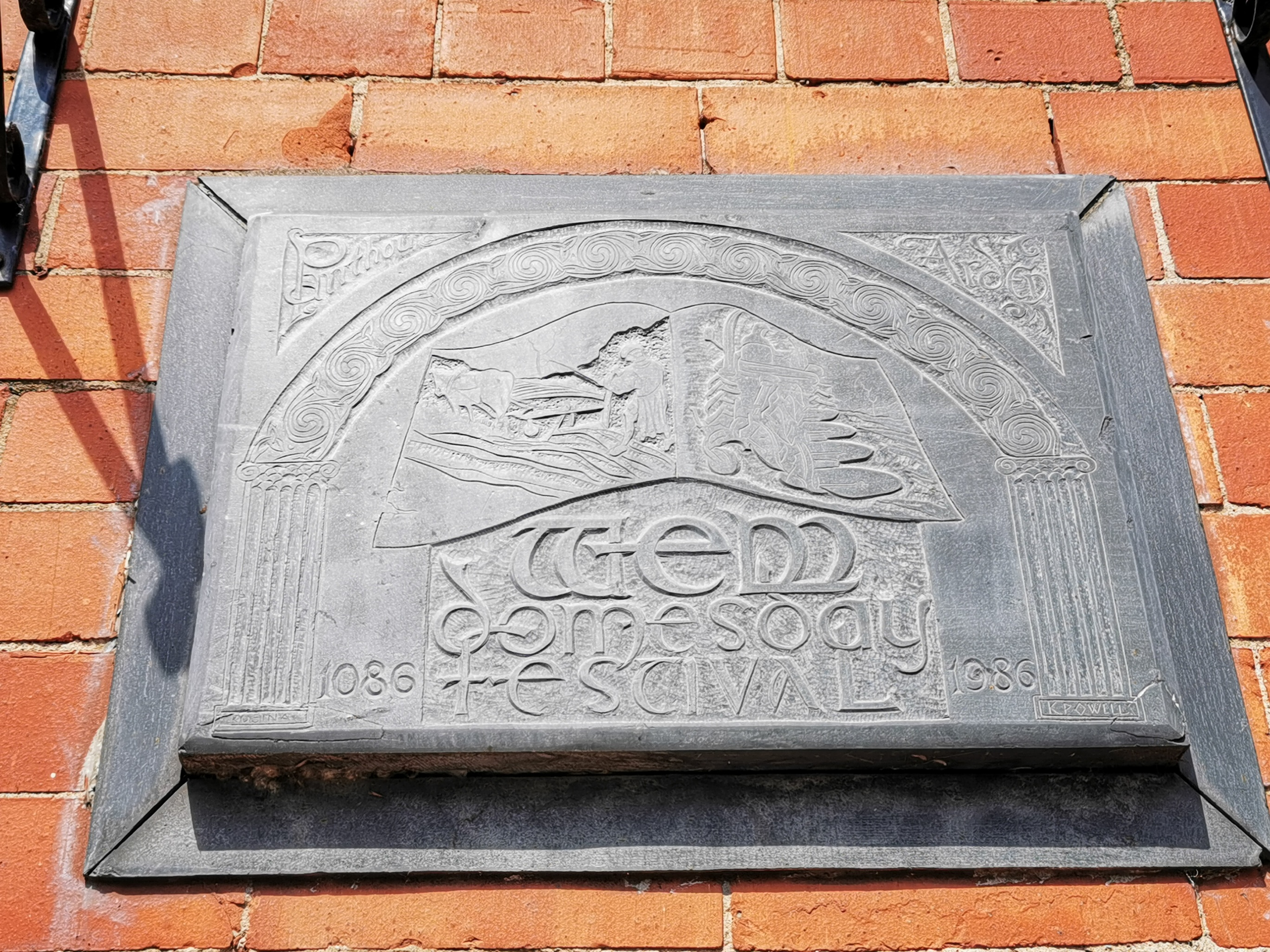 Wem Domesday Festival Tablet